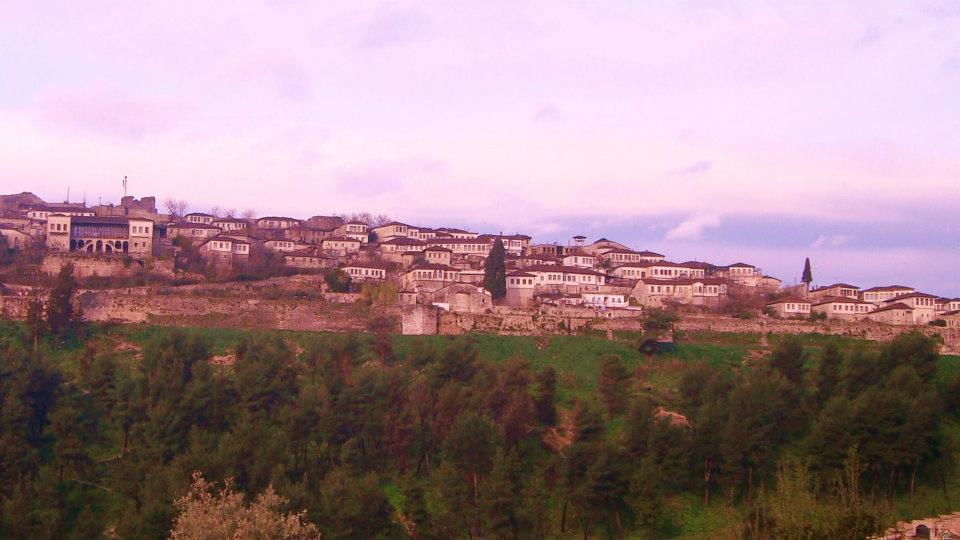 The Castle of Berat.